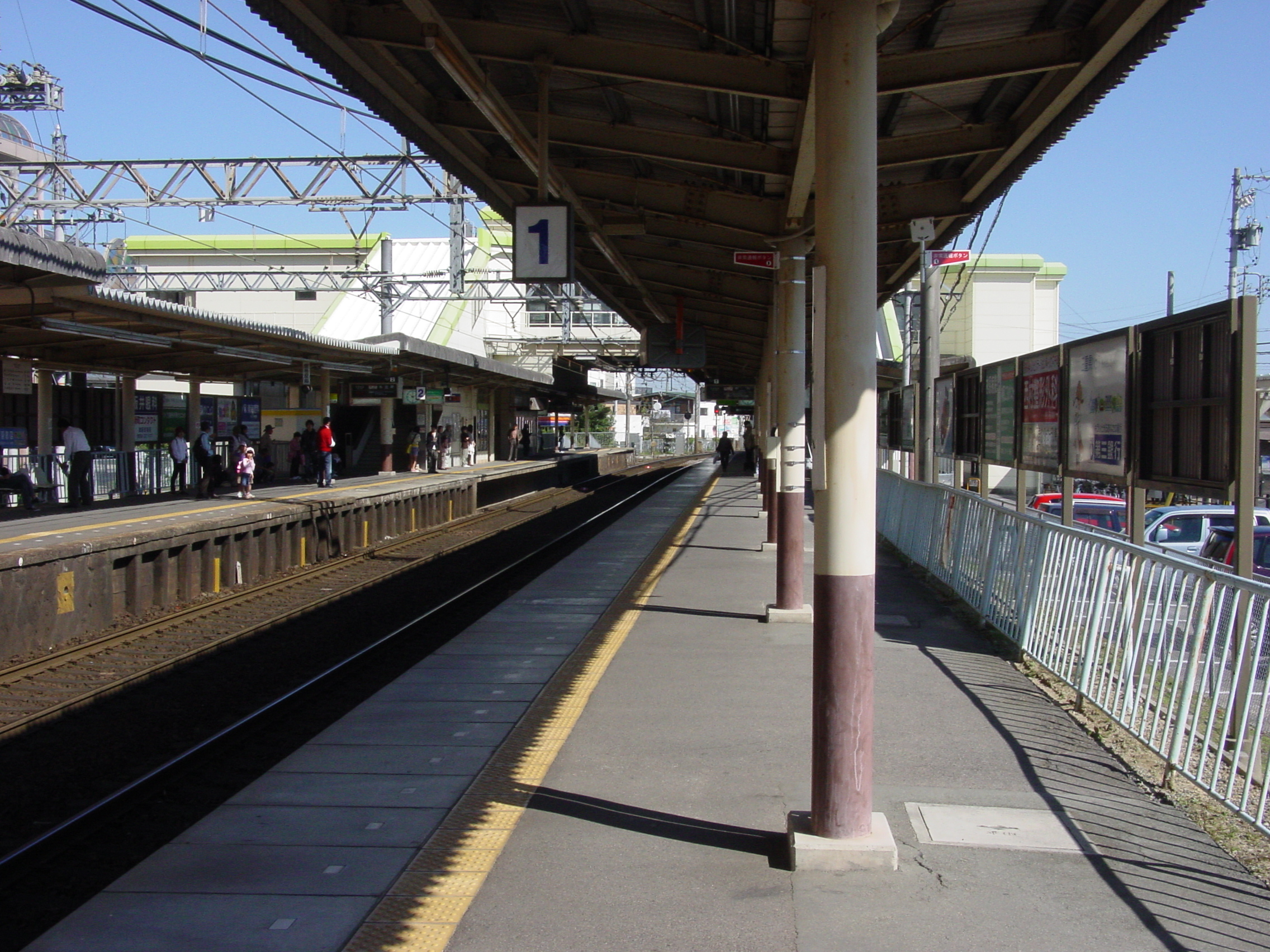 Hisai Station platforms, Tsu, Mie, Japan